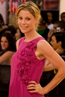 Julie Bowen at the eTalk Festival Party, during the Toronto International Film Festival. depicted person: Julie Bowen (age: 38.51)